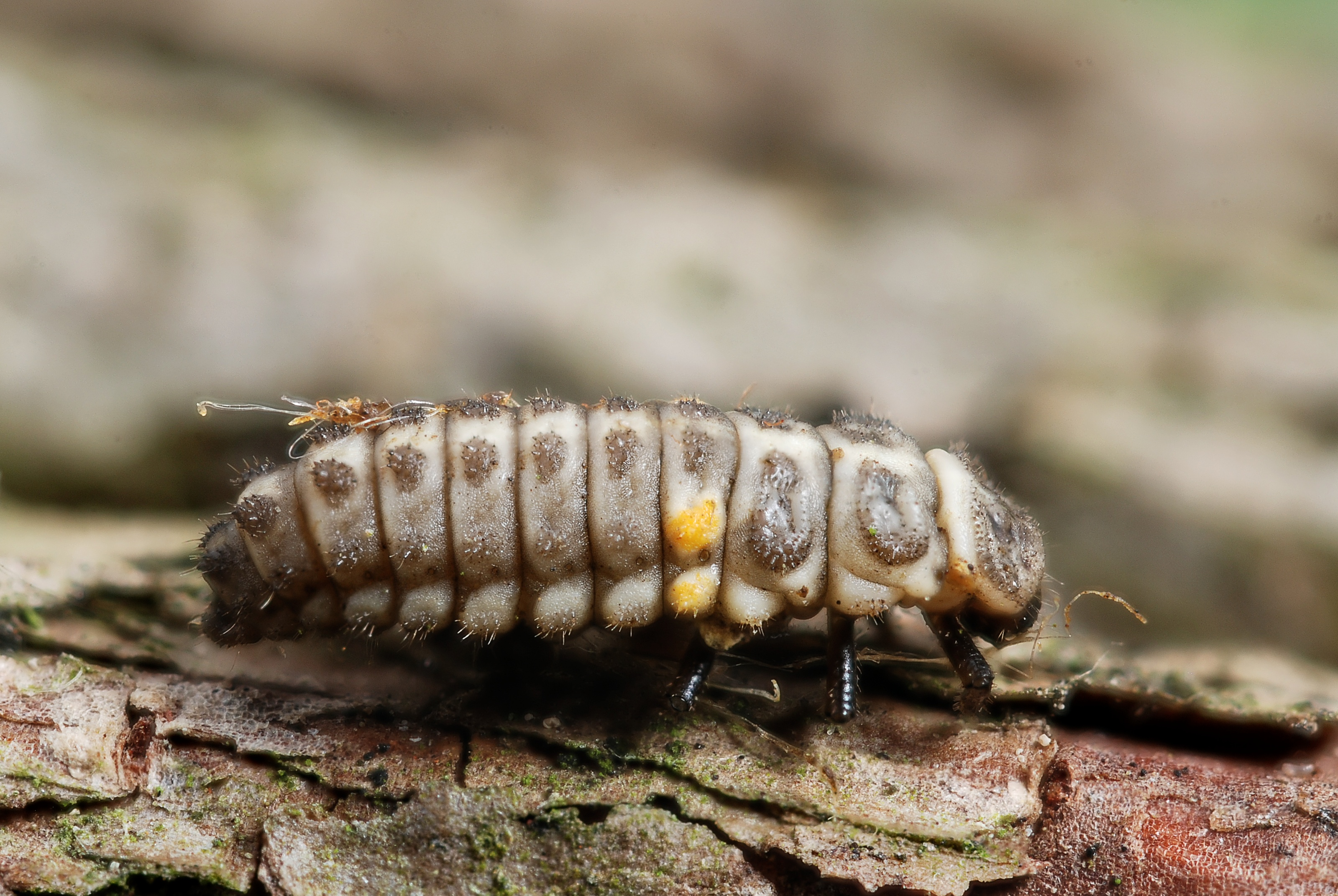 Larva of the ladybird Aphidecta obliterata Technical settings : - focus stack of 3 handheld taken images - 60 mm micro-nikkor on 68 mm extention tubes